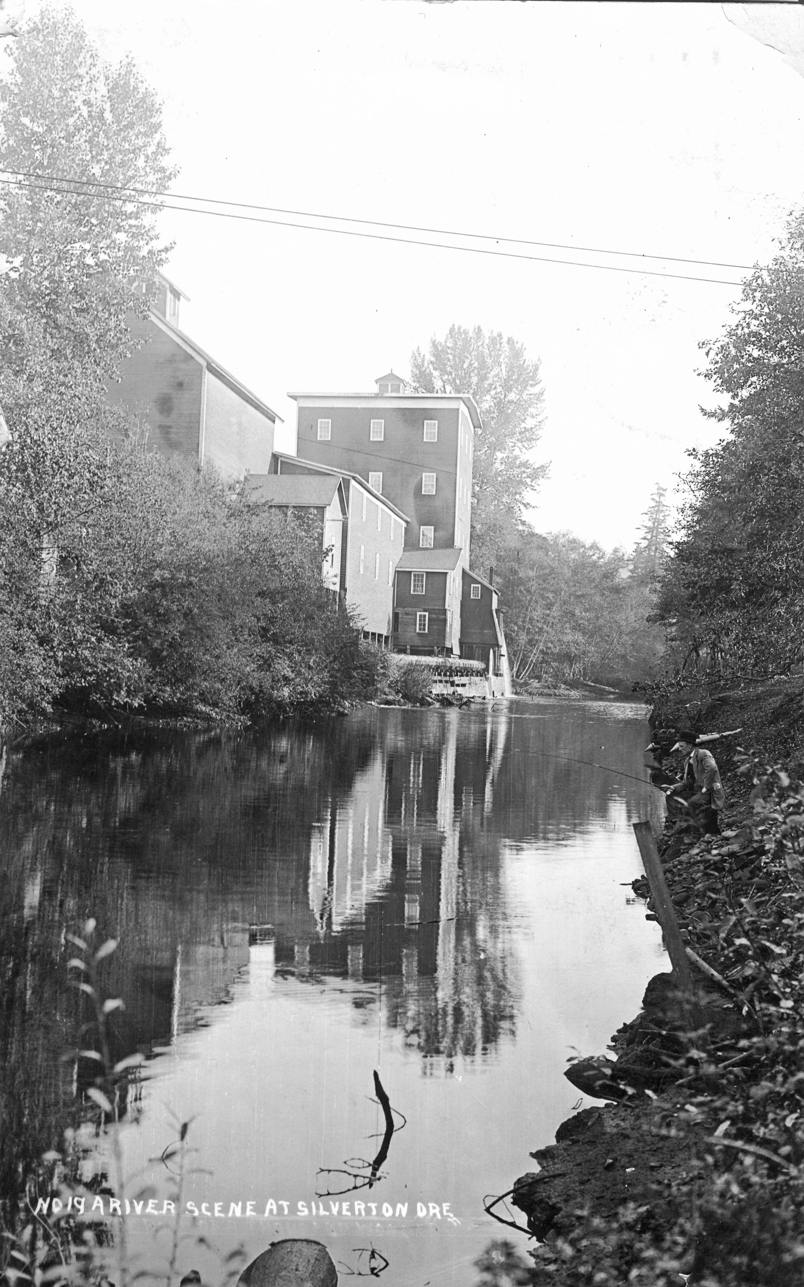 Original Collection: Gerald W. Williams Collection Item Number: WilliamsG:Santiam Silverton mill You can find this image by searching for the item number by clicking here. Want more? You can find more digital resources online. We're happy for you to share this digital image within the spirit of The Commons; however, certain restrictions on high quality reproductions of the original physical version may apply. To read more about what “no known restrictions” means, please visit the Special Collections & Archives website, or contact staff at the OSU Special Collections & Archives Research Center for details.